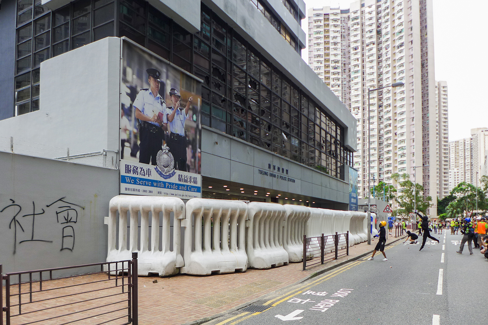 Protester throw brick to Tseung Kwan O Police Station